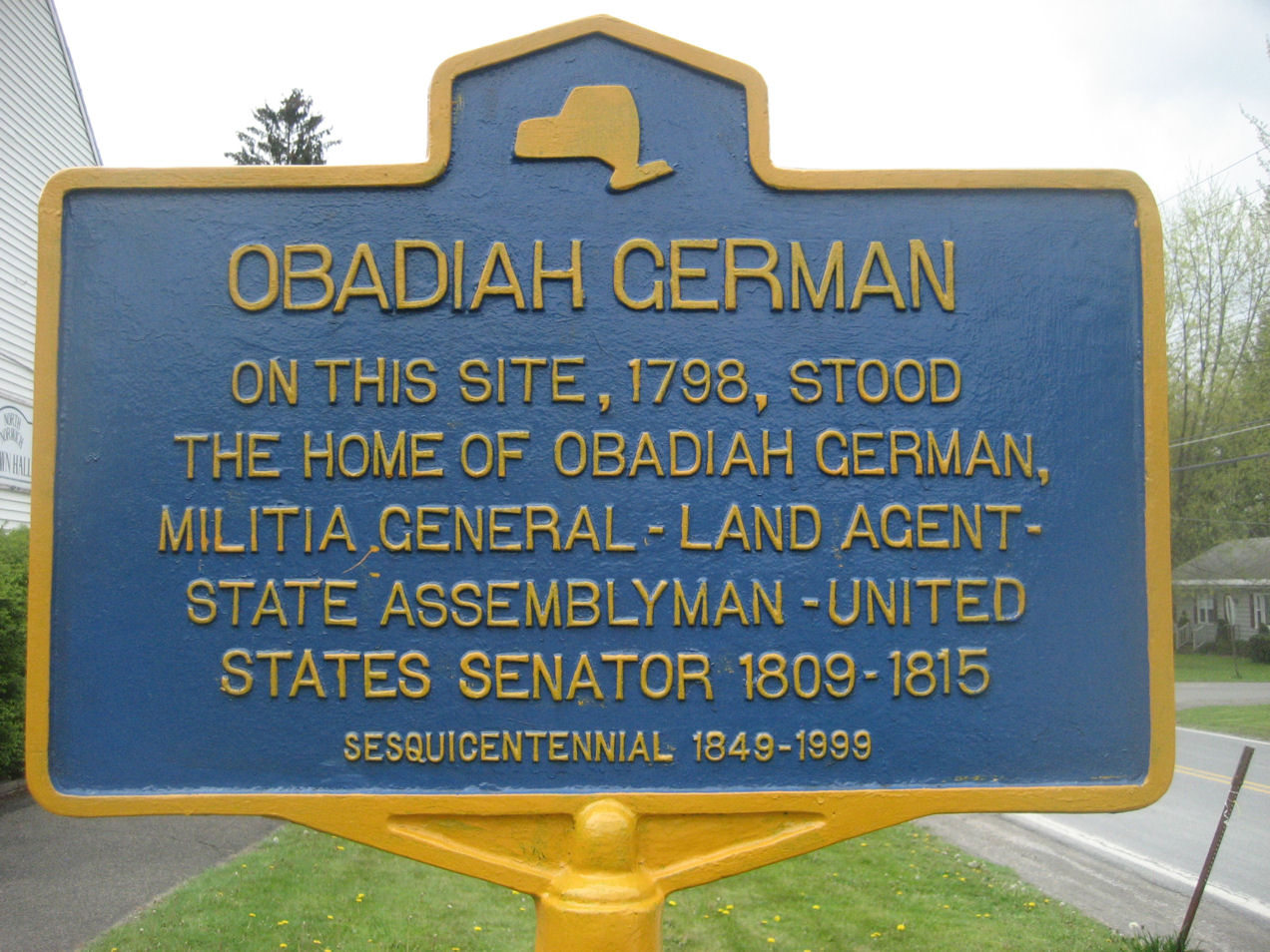 Historic marker of the 1798 home of Obadiah German, Militia General, Land Agent, NY State Assemblyman, and US Senator 1809-1815.